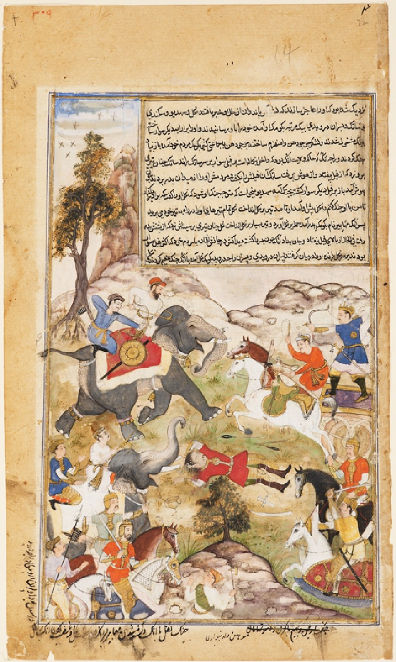 Description Details Further reading Associated place Asia › India › north India (place of creation) Date 1598, Mughal Period (1526 - 1858) Artist/maker Mohan, Son of Banwari (active c. 1598) Associated people probably 'Abd ur-Rahim Khankhanan (1556 - 1626) (commissioner) Material and technique gouache on paper Dimensions mount 55.3 x 40.1 cm (height x width), page 29.4 x 17.4 cm (height x width), painting 23.2 x 14.7 cm (height x width) Material index paper Technique index painted, brush drawing Object type index painting, calligraphy, manuscript No. of items 1 Credit line Gift of Gerald Reitlinger, 1978. Accession no. EA1978.2594 Description Details Further reading This illustration comes from a dispersed manuscript of the Razmnama, a Persian translation of the great Hindu Mahabharata epic made during Akbar’s reign. It depicts the Pandava brothers and their allies in a battle with the king of Anga in Bengal. The work was probably commissioned by Akbar’s leading minister, Abd ur-Rahim Khankhanan, and executed by artists trained in the imperial studio. The Ashmolean has five other pages from this manuscript, and many others are in the British Museum.